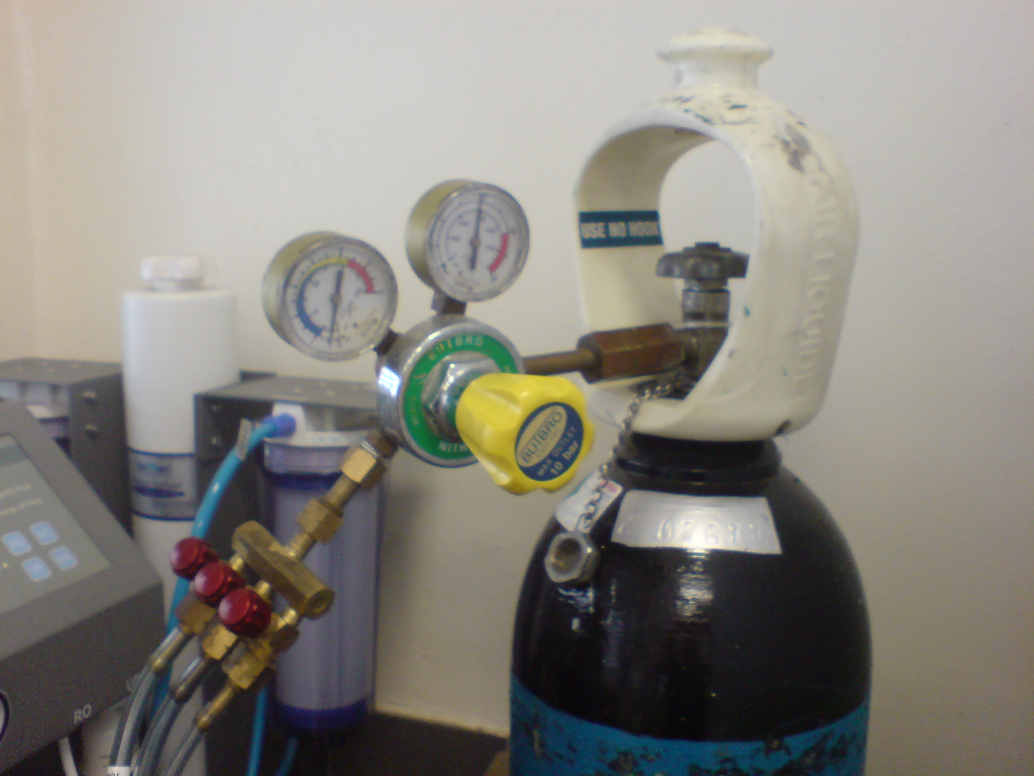 Gas regulator attached to a nitrogen tank, with a three-way outlet controlled by needle valves